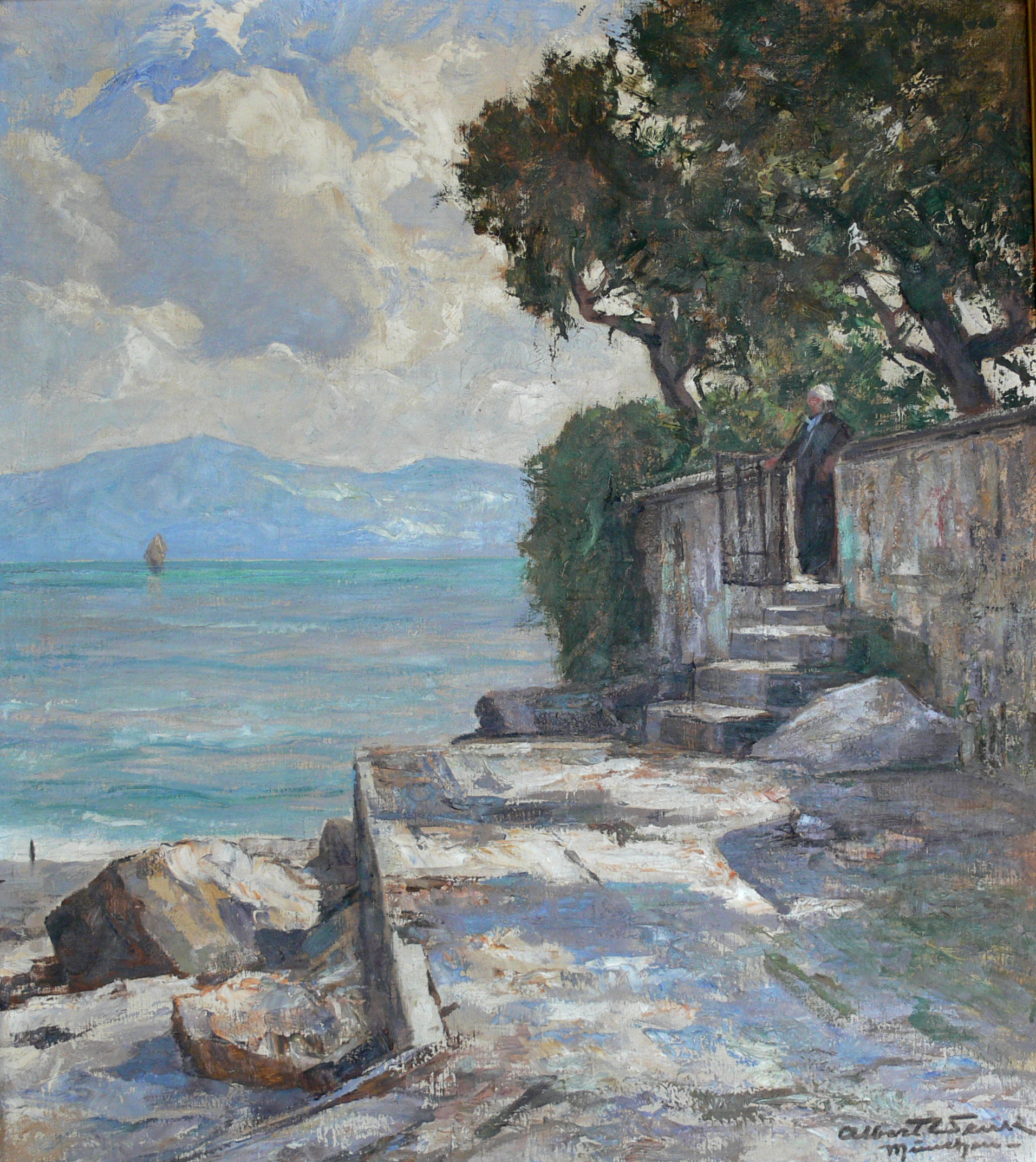 Albert Wenk: Szene am Bodensee; Oil on canvas, signed "Albert Wenk München"; private collection